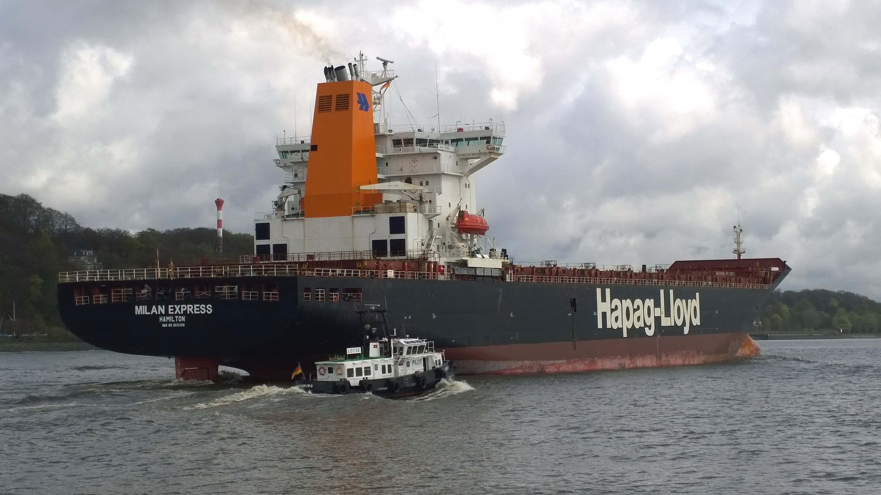 Hapag-Lloyd Container ship Milan Express with port of destination Hamburg; pilot boat starboard side